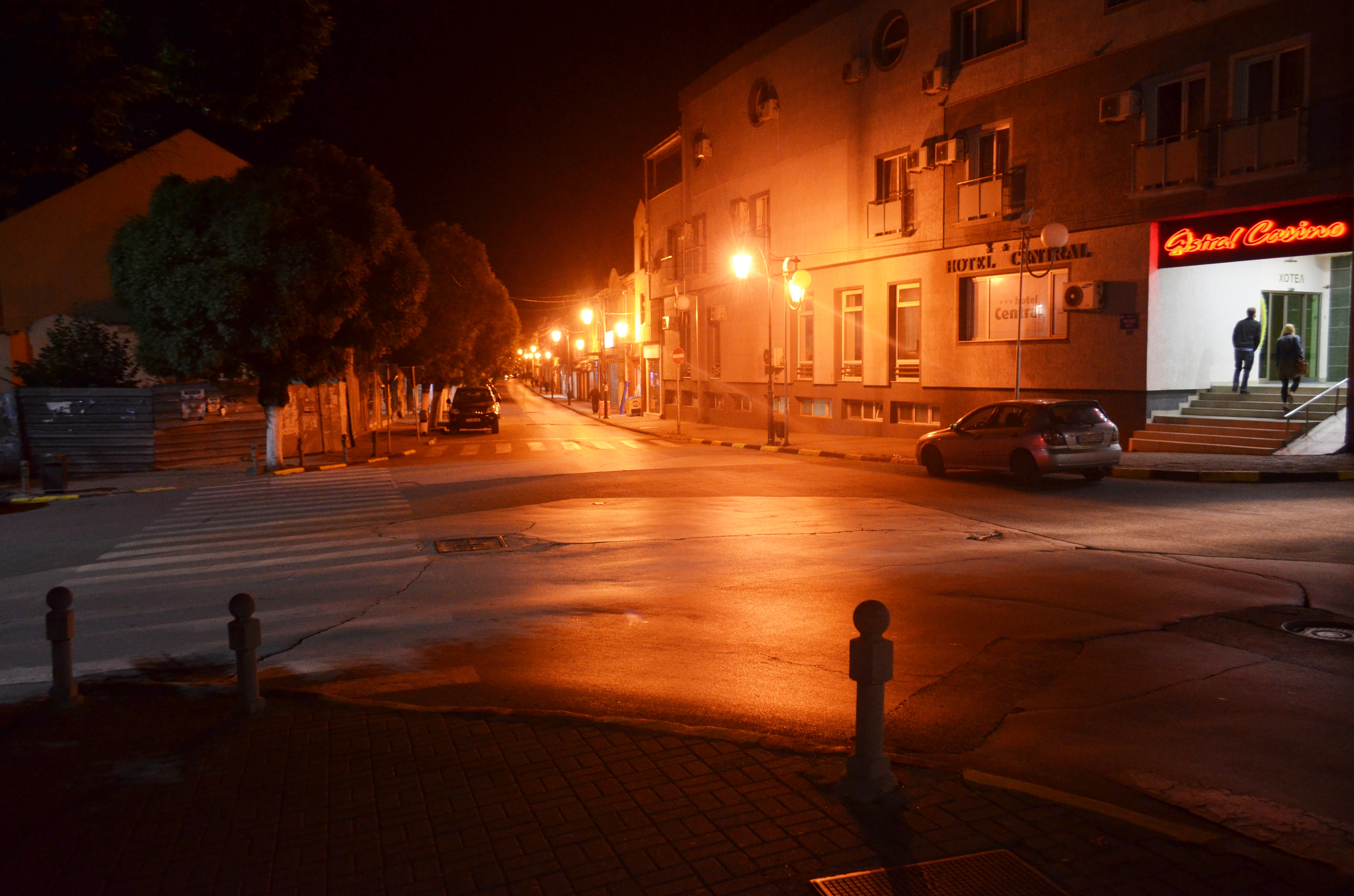 The entrance to the Old Strumica Bazaar and the intersection between the streets Leninova, Sando Masev and Marshal Tito.